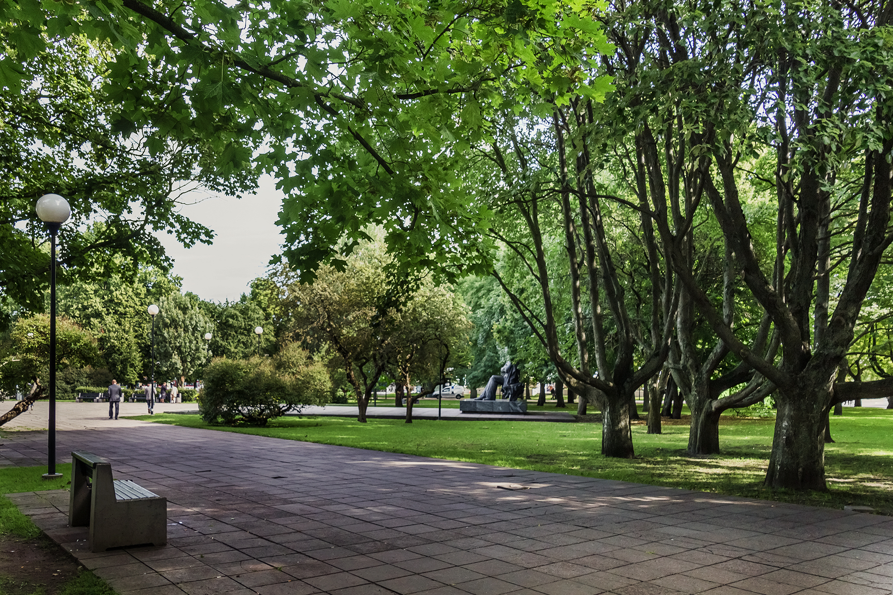 A.H. Tammsaare Park in Tallinn, August 2012